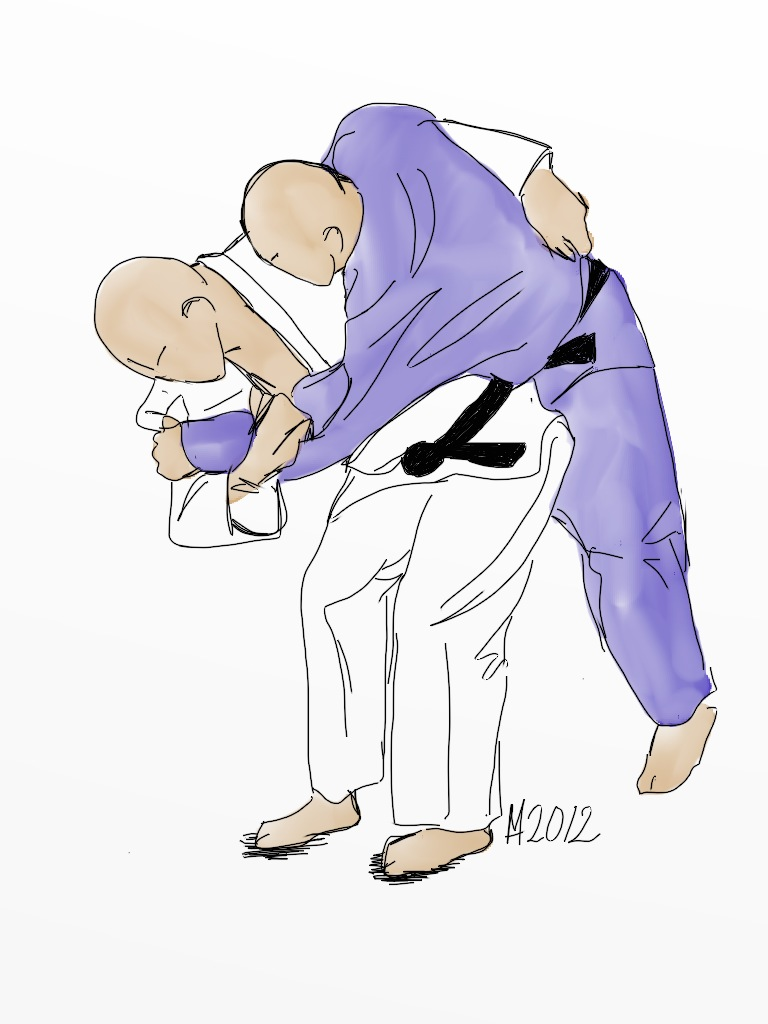 Illustration of the judo throw o-goshi, or large-hip-throw, where you turn in front of the opponent and throw the opponent over your hip.